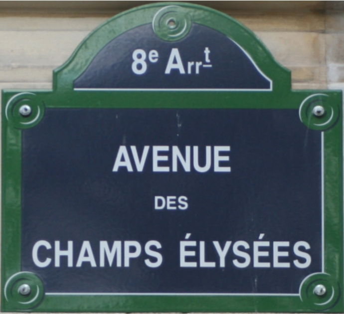 a streetsign of Champs Elysées. Corrected a bit with the help of GIMP